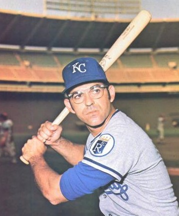 Image cropped from a baseball card of Cookie Rojas from the 1972 Kansas City Royals Color Picture Pack Set